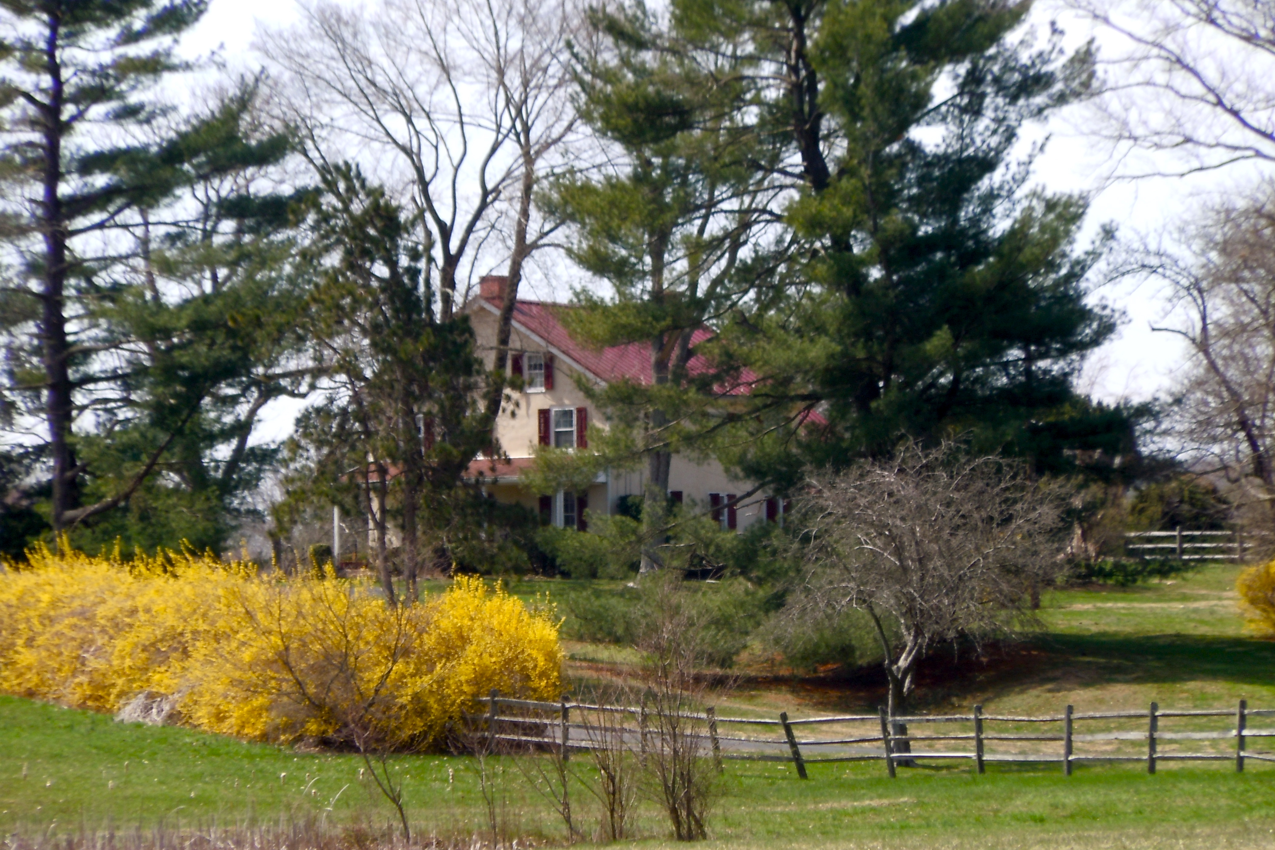 Simon Meredith House on the NRHP since December 16, 1974 0.5 miles (0.80 km) west of Pughtown on Pughtown Road, south of Ridge road as well, in South Coventry Township, Chester County, Pennsylvania.